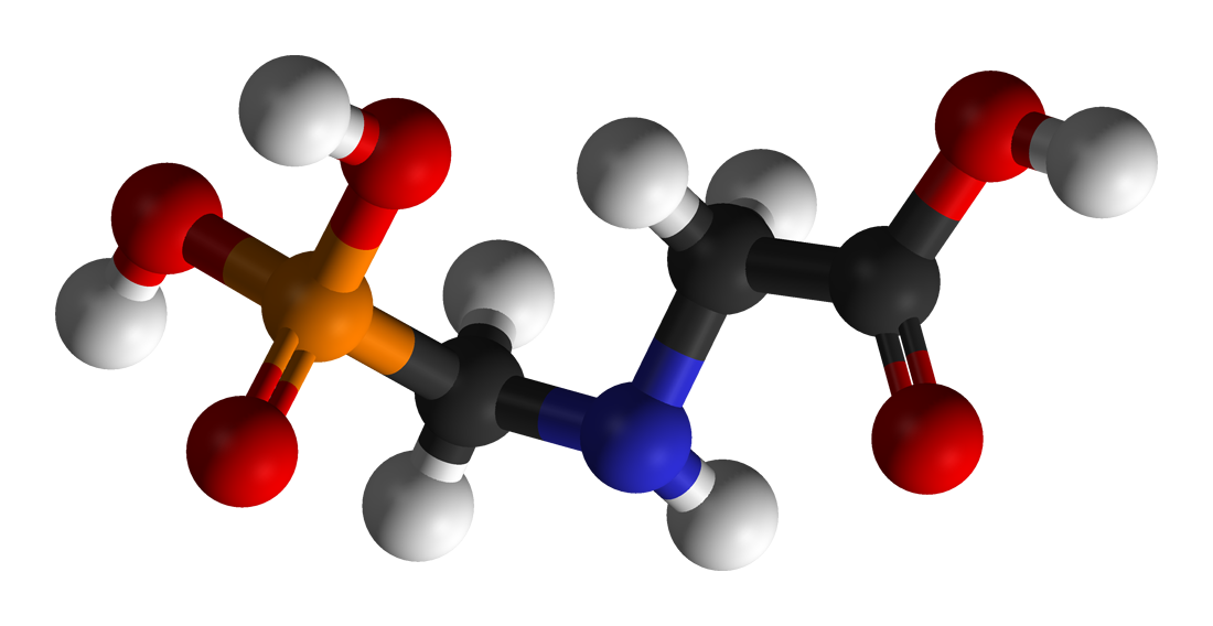 Glyphosate 3D balls.